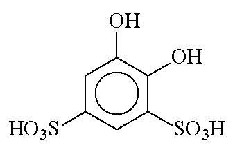 Drawing of Tiron a uranium antidote which is an alternative to bicarbonate.